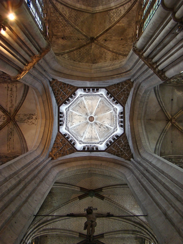 Évreux Cathedral, Eure, Normandie, France. The octagonal central tower.